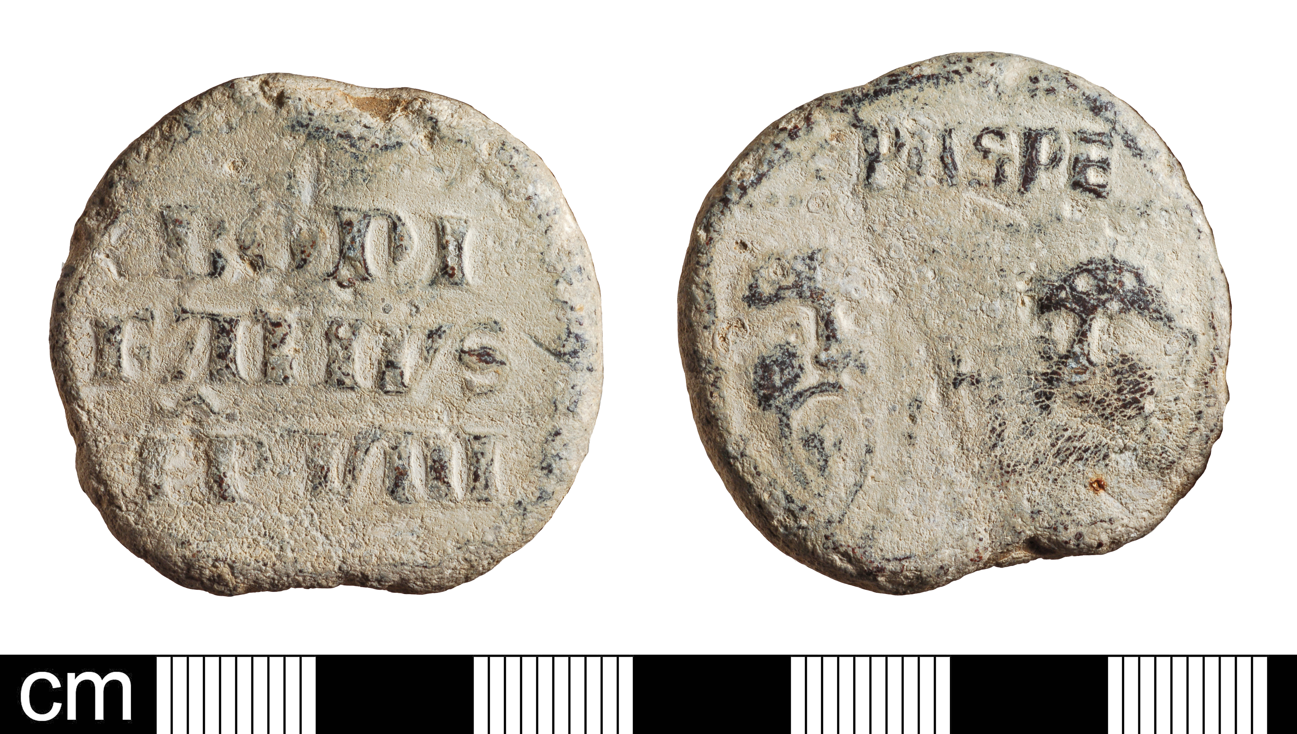 A lead-alloy papal bulla of Pope Boniface VIII, pontiff between 1294 and 1303. The bulla is of typical form, being discoidal and having a vertical perforation, in which the cord for tying up the document would have been located. The obverse bears the relief-moulded heads of St. Peter (right) and St. Paul (left), who face inwards, each surrounded by a beaded curve and probably separated from one another by the shaft of a central cross, although, due to the level of wear, this is not visible. The legend 'SPASPE' ('Saint Paul and St. Peter') extends horizontally above the two heads. On the reverse is the legend, also in relief, which reads 'BONI/FATIVS/PP(omega above).VIII'. The obverse and reverse images are set at 12 o'clock to one another. Width: 34.8 mm; height: 32.8 mm; thickness: 5.4 mm. Weight: 37.27 g.